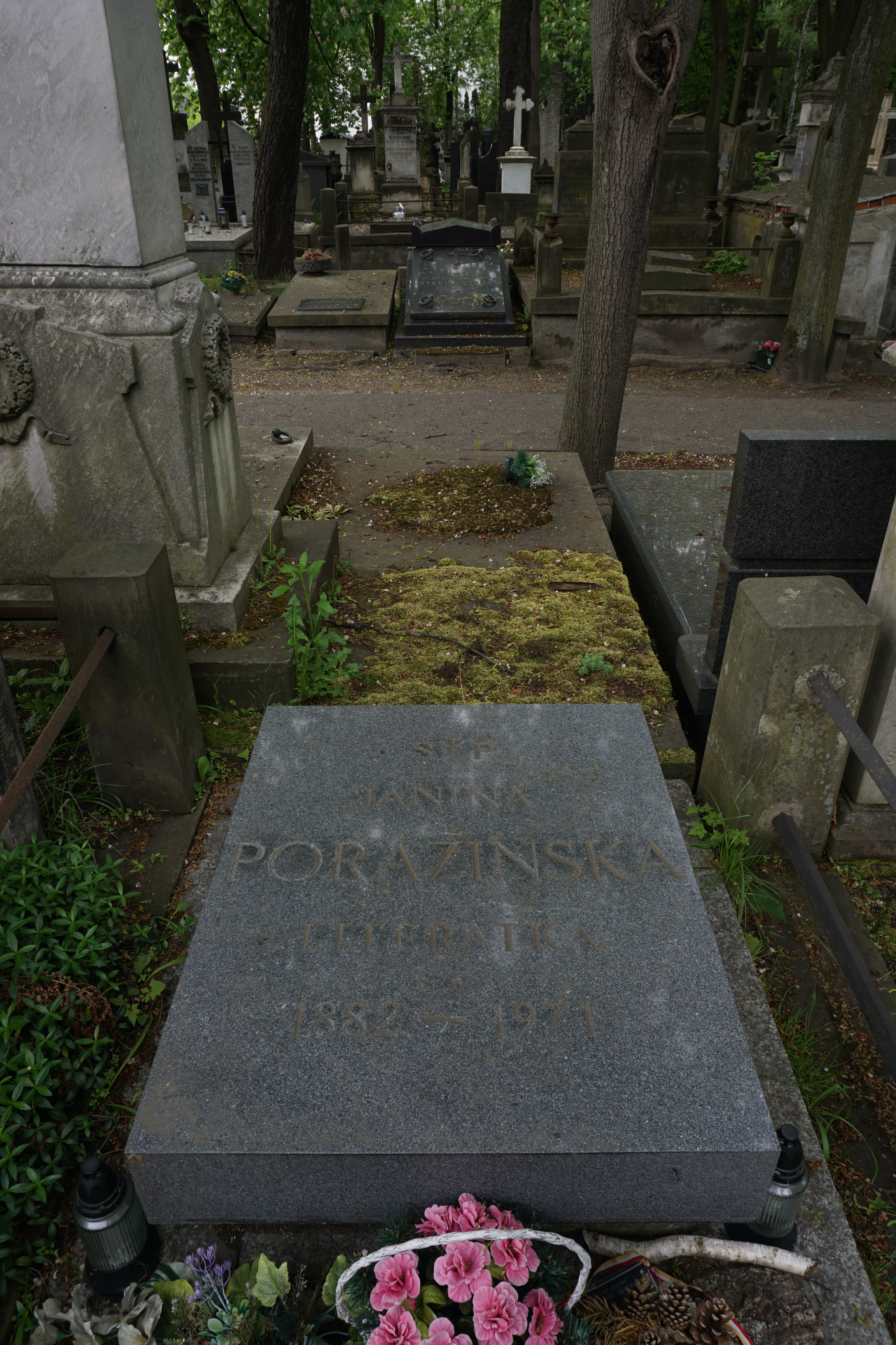 The grave of Janina Porazińska at the Powązki Cemetery (section 19, row 2, grave 7)